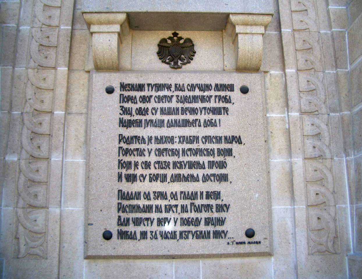 Allied Memorial Park of Zeitenlik in Salonica. The Serbian Cenotaph